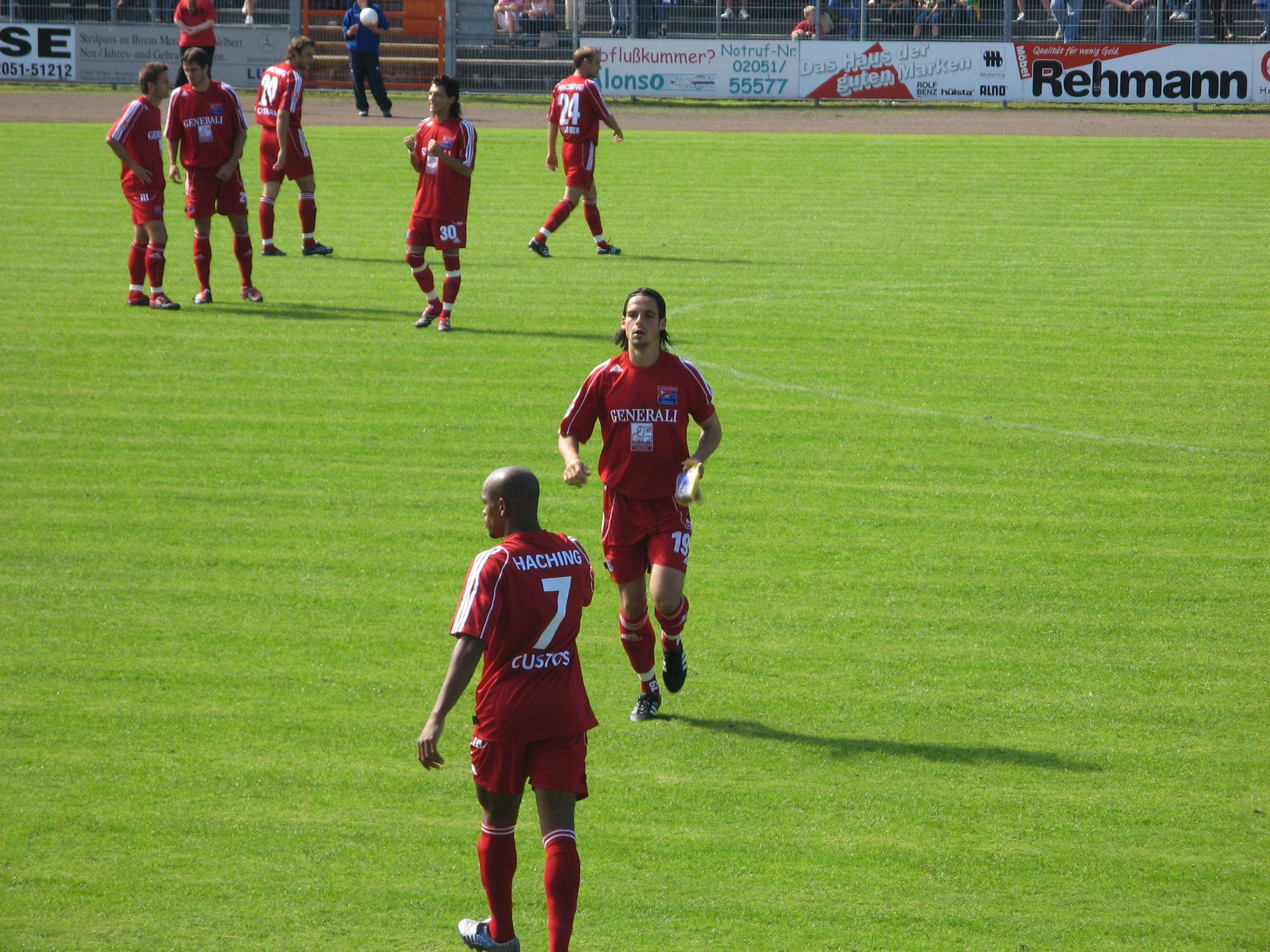 german football player Stefan Buck (middle, walking from the field) in dress of SpVgg Unterhaching